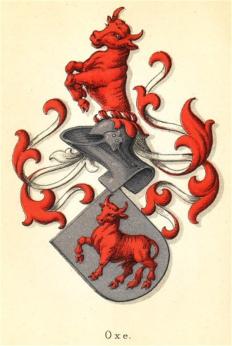 Coat of arms of the Oxe family